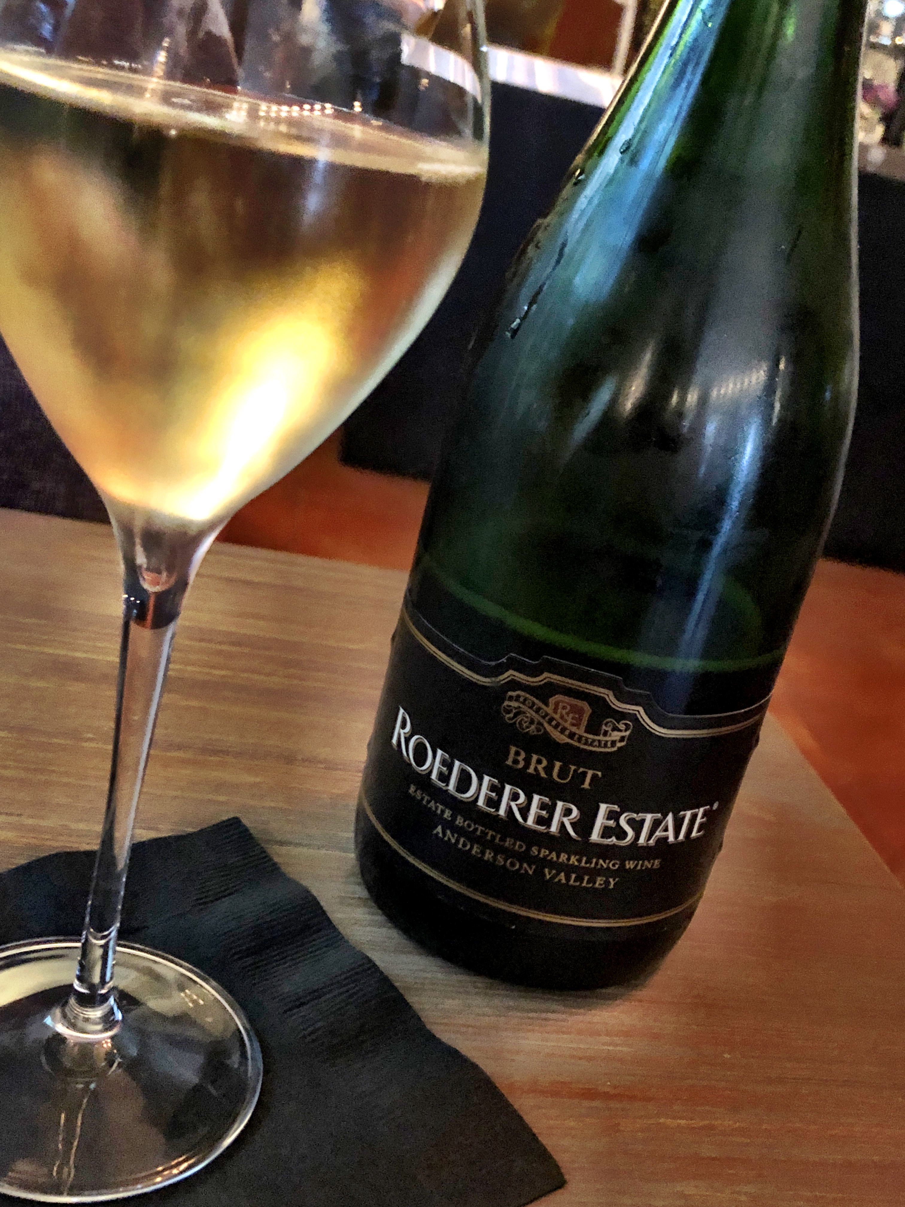 A glass and bottle of Roederer Estate Brut at the Panel in Sonoma, California